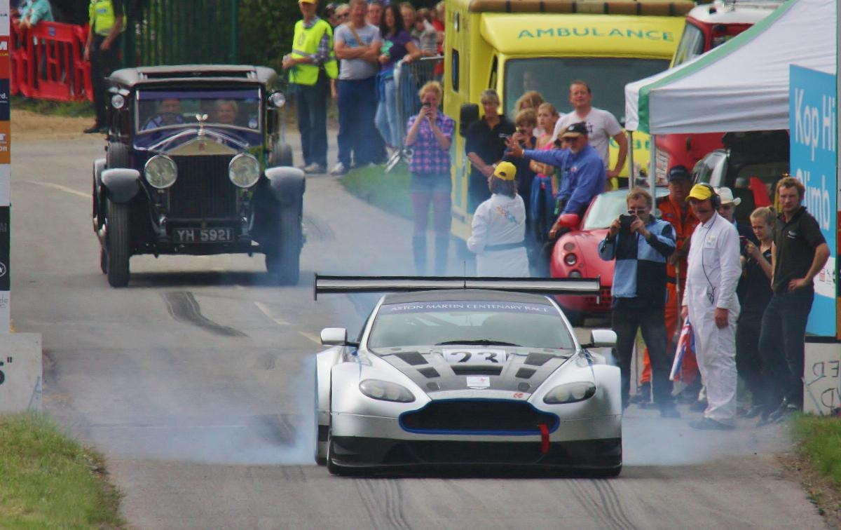 A modern Aston Martin smokes away from the Kop Hill start line - Kop Hill climb - Sept 2013